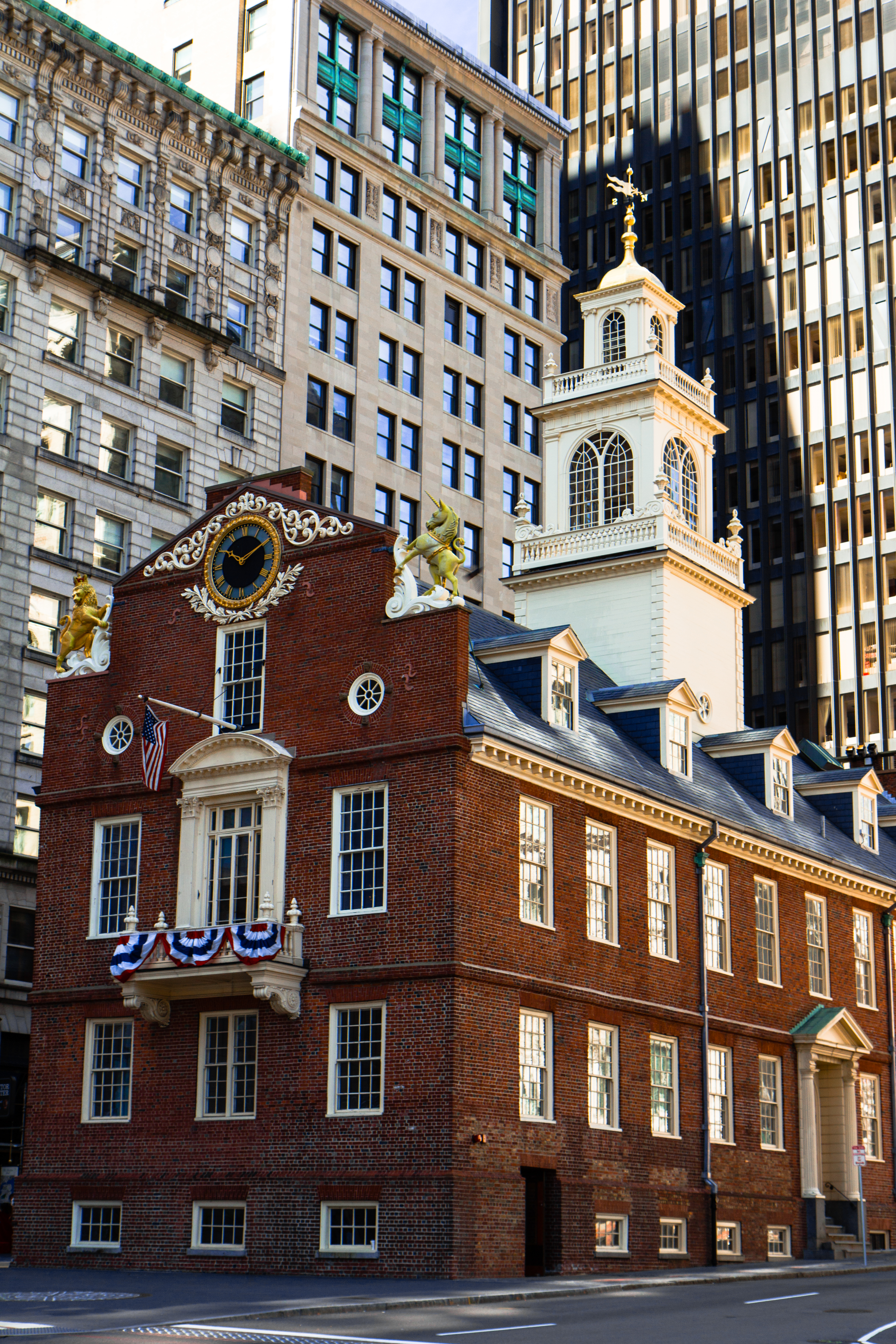 Old State House